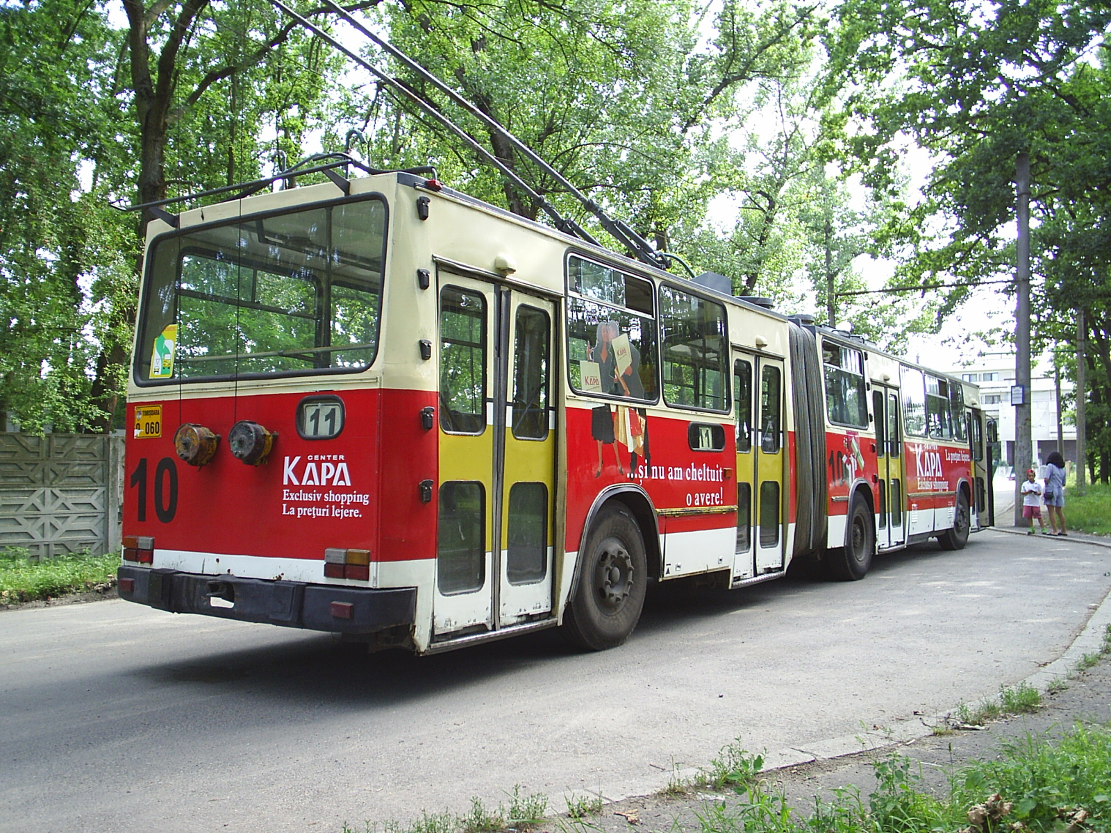 Rocar trolleybus no 10